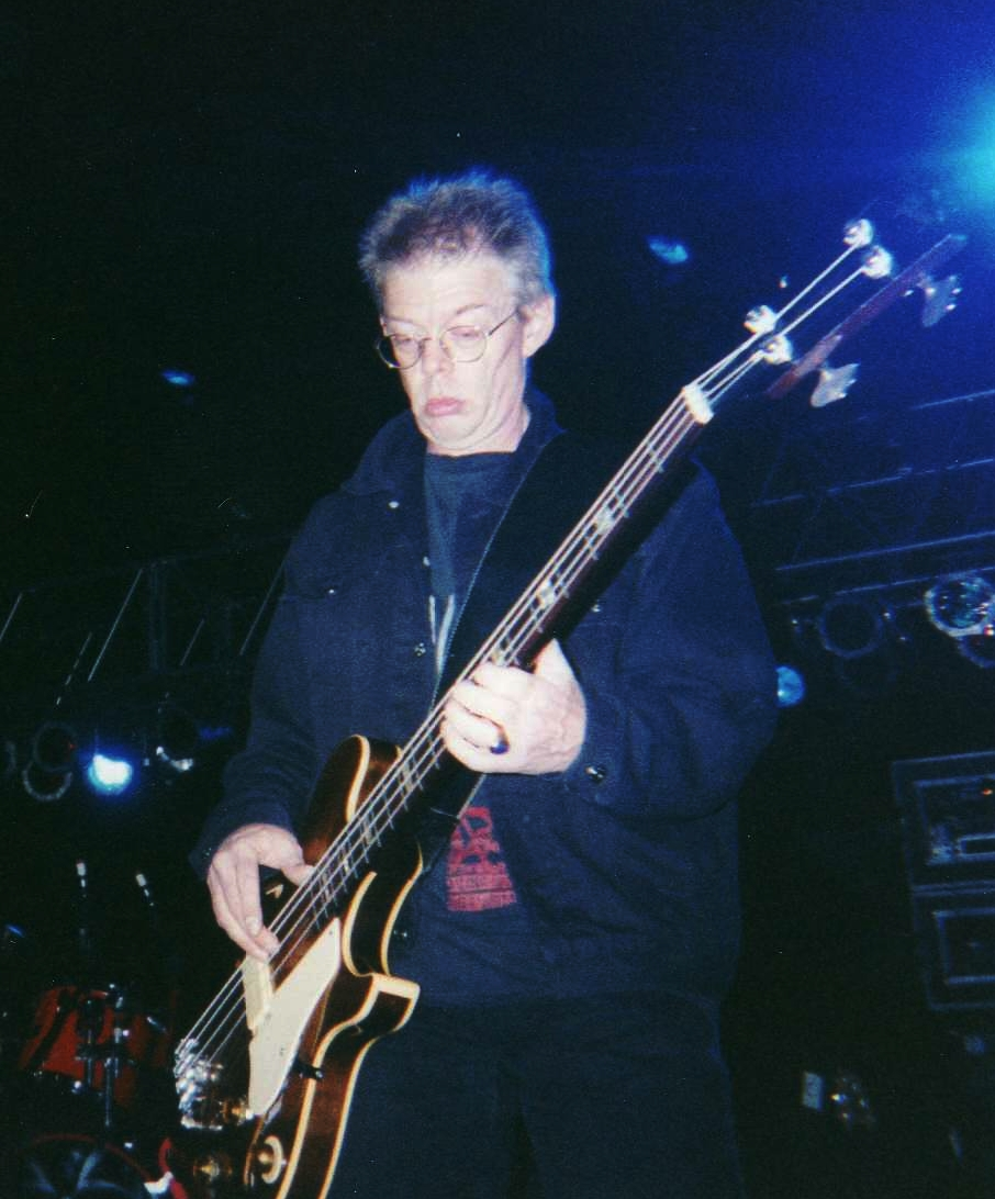 Jack Casady in concert with the Jefferson Starship, in a private event for the SCO Forum96 computer conference in the courtyard of Cowell College at University of California, Santa Cruz.